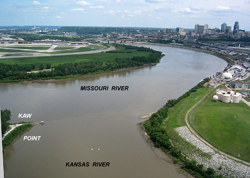 Picture of Missouri river